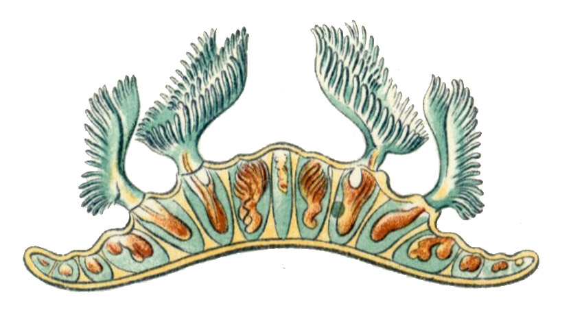 Young colonial specimen of Cristatella Mucedo) ; from Haeckel (1904)